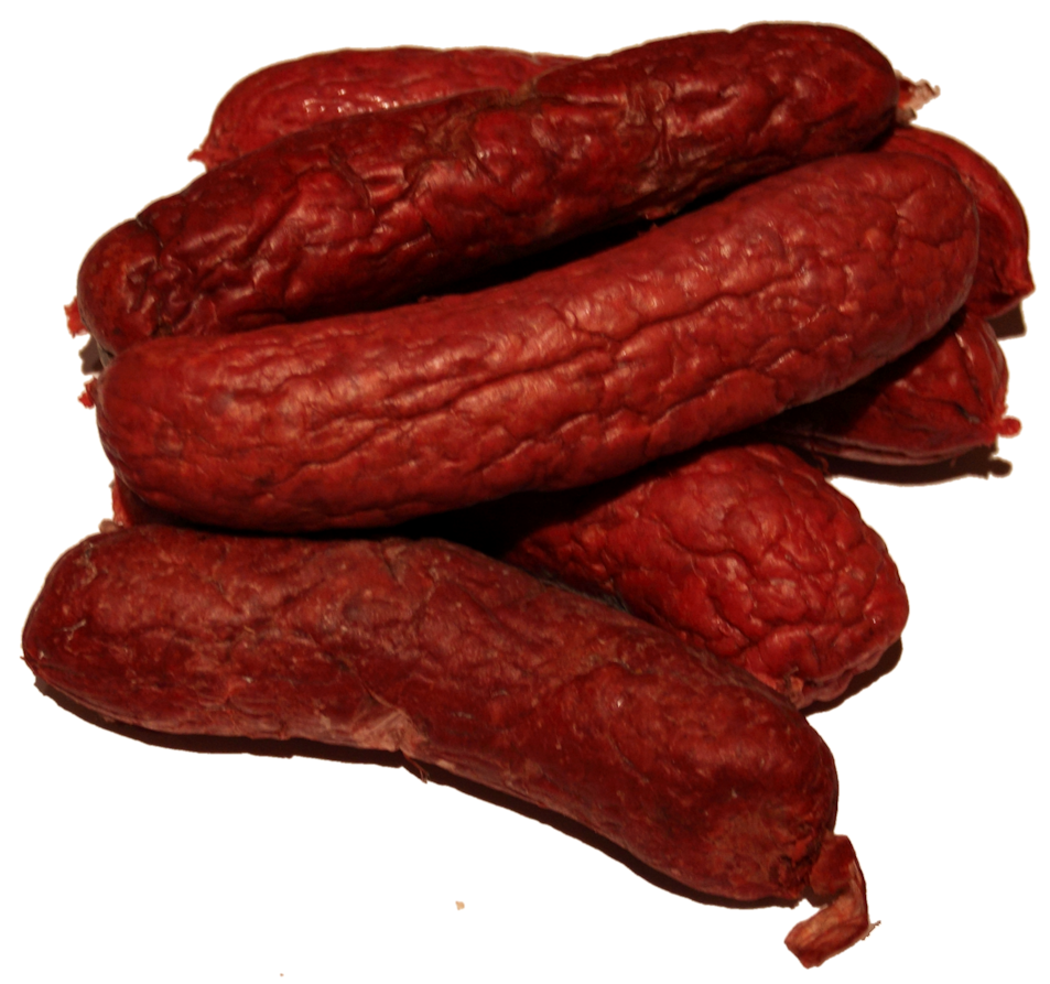 Oaxacan Sausage